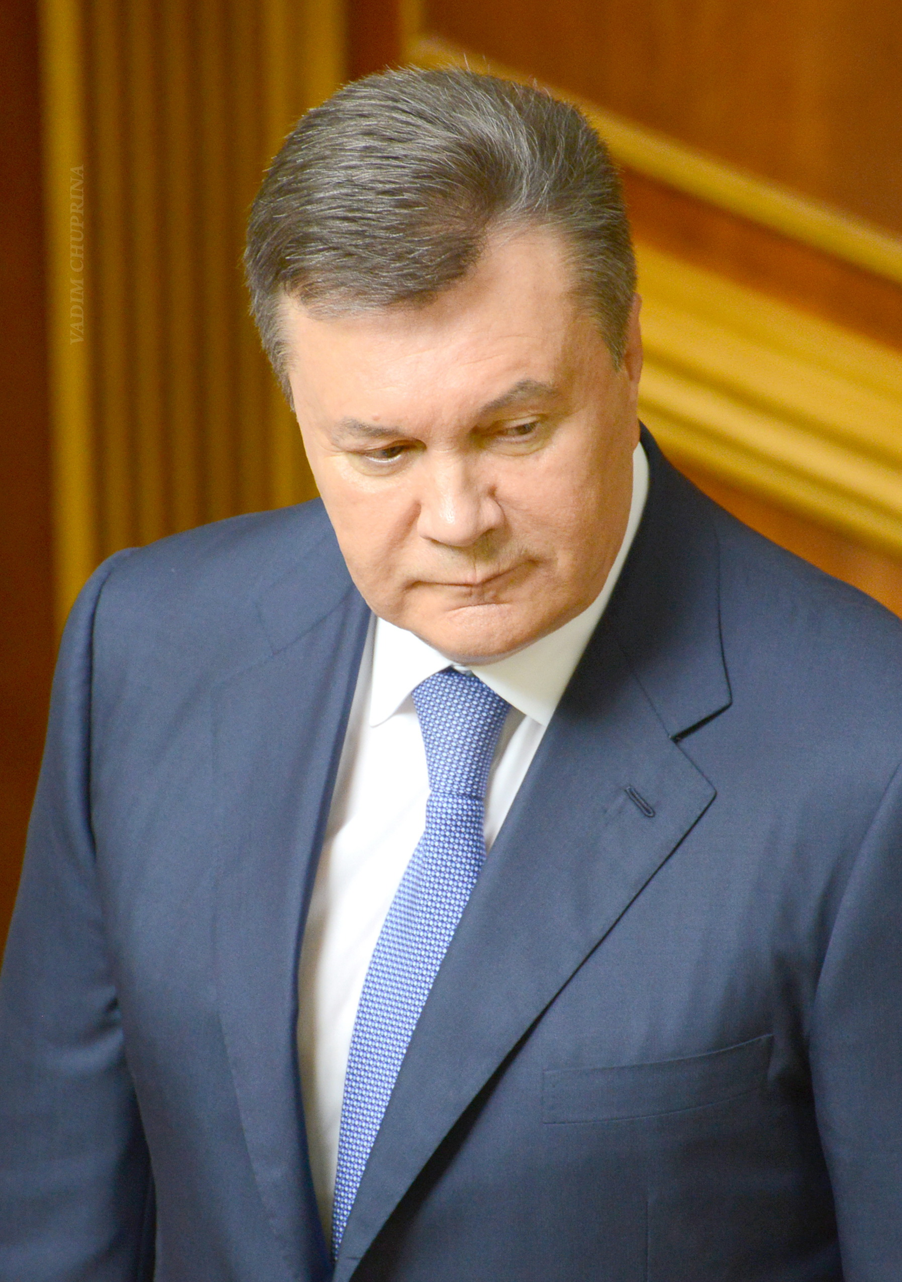 Ukrainian politicians VADIM CHUPRINA